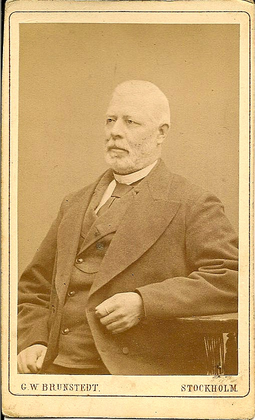 Swedish politician from late nineteenth century